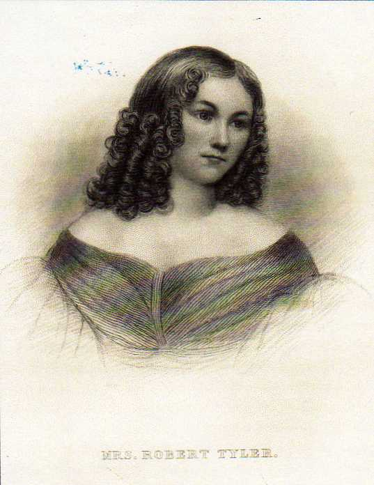 Elizabeth Priscilla Cooper Tyler, First Lady of the United States from 1842 to 1844, during the presidential tenure of her father-in-law, President John Tyler